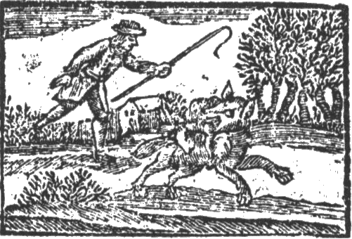 Image from A Little Pretty Pocket-book